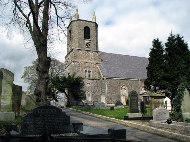 Holy Trinity Church of Ireland parish church, Drumbo, County Down, Northern Ireland. The present church is in Ballylesson. It was designed by Charles Lilly and built in 1791.